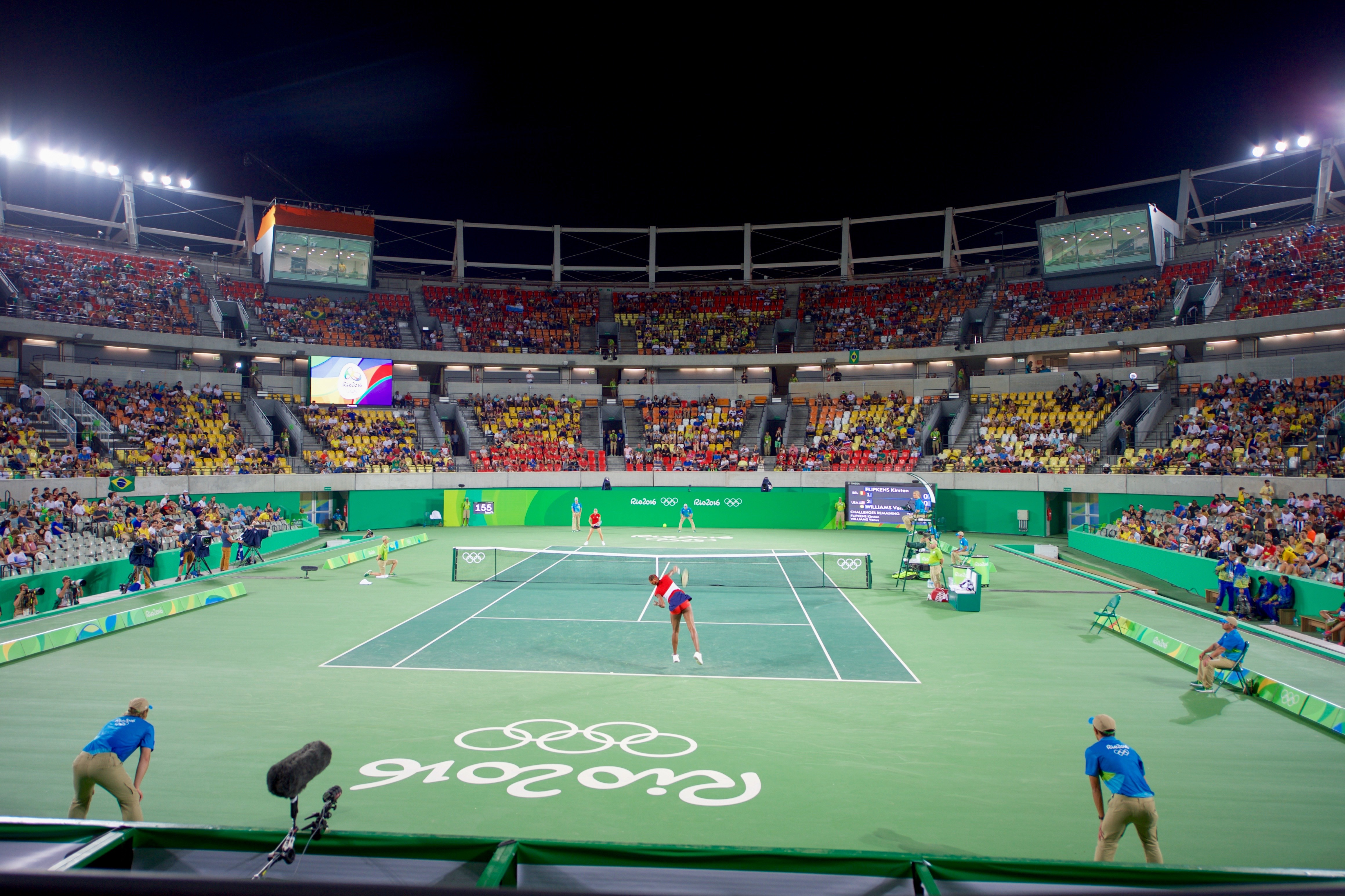 U.S. tennis player Venus Williams serves to Belgian tennis player Kirsten Flipkens on August 6, 2016, during an Olympic tennis match at Olympic Park in Rio de Janiero, Brazil, watched by U.S. Secretary of State John Kerry and fellow members of the U.S. Presidential Delegation to the 2016 Summer Olympics. [State Department Photo/ Public Domain]